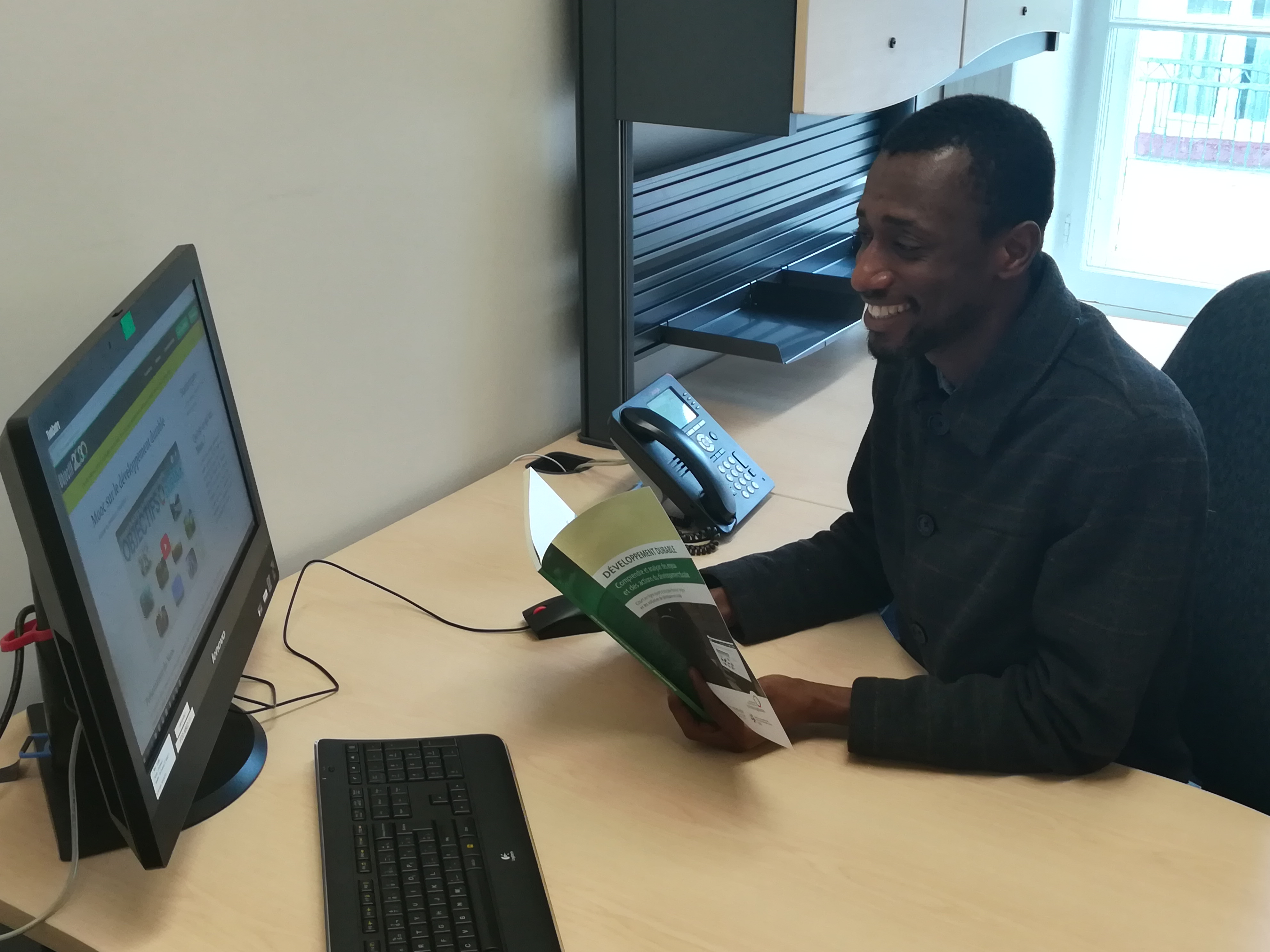 Mooc session 2018 of Objectif 2030